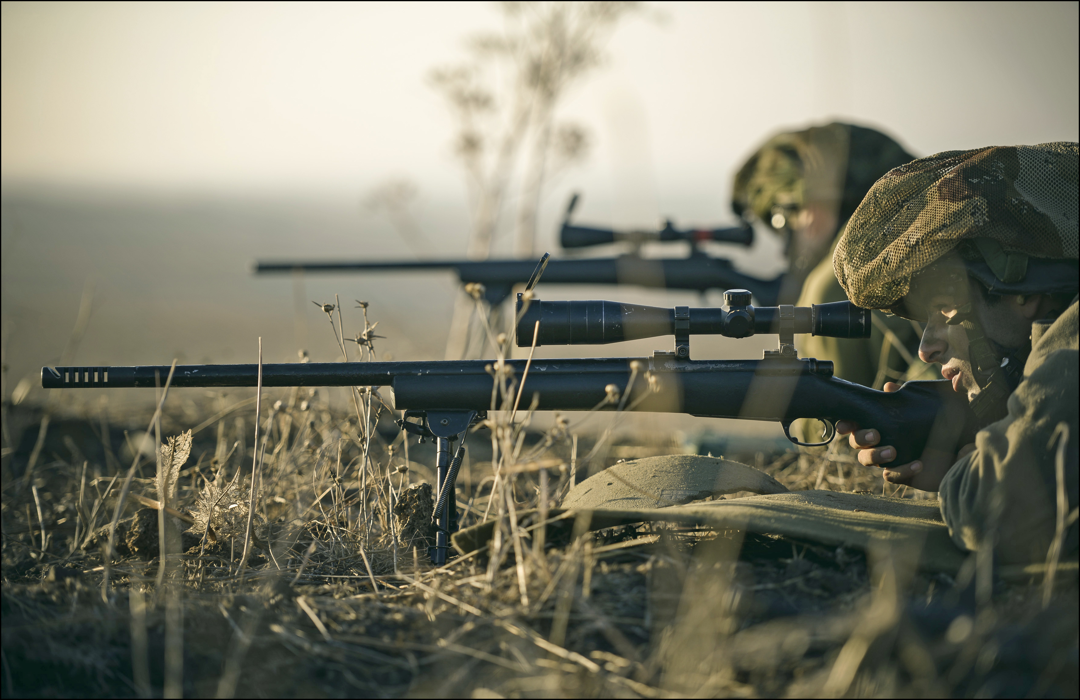 Nahal Brigade Military Exercise. After a long training phase, which started right after Operation Protective Edge, the Nahal infantry Brigade soldiers participated in a large exercise, combined with the corps of Artillery, Armored & Combat Engineering.